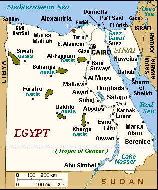 Regional map of Egypt, with main cities and oasis areas labeled, plus scale of miles/km (approximate). The file is in GIF format, 10x times faster than PNG format, for rapid display and to allow precise edits when adding other towns in the future. Re-labeled to include 6 oasis areas, with "Giza" and sea-side towns, plus dotted line for Tropic of Cancer. This file was created by hand-editing as a simple map of Egypt, adding towns as referenced in articles, so the locations of towns are approximate. Source: hand-edited file using MS Paint.